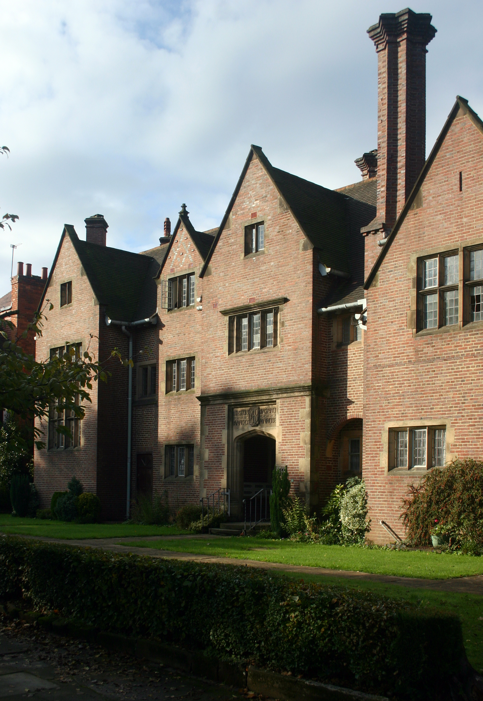 The Hurst, 6 Amesbury Road, Moseley, Birmingham - an Arts and Crafts villa by William Bidlake